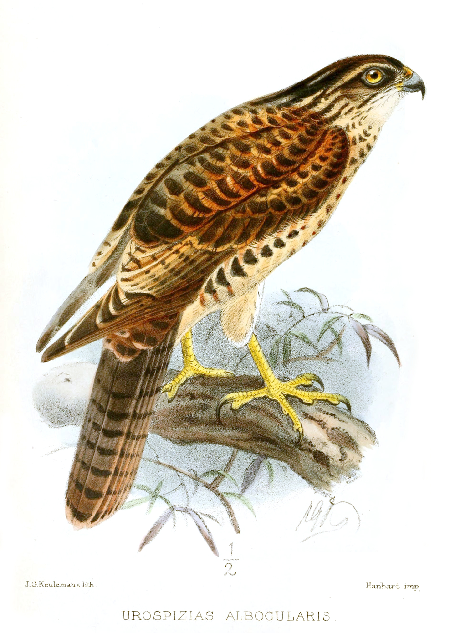 « Urospizias albogularis » = Accipiter albogularis (Pied goshawk)